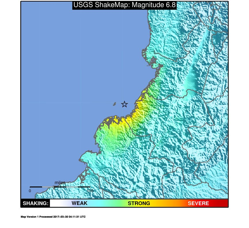 ShakeMap of the 2007 Gorgona Island earthquake, Colombia